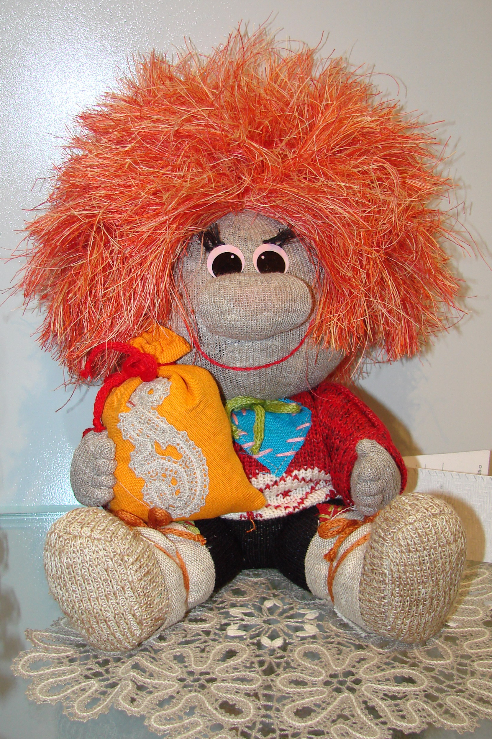 Russia, Vologda, Museum of lace